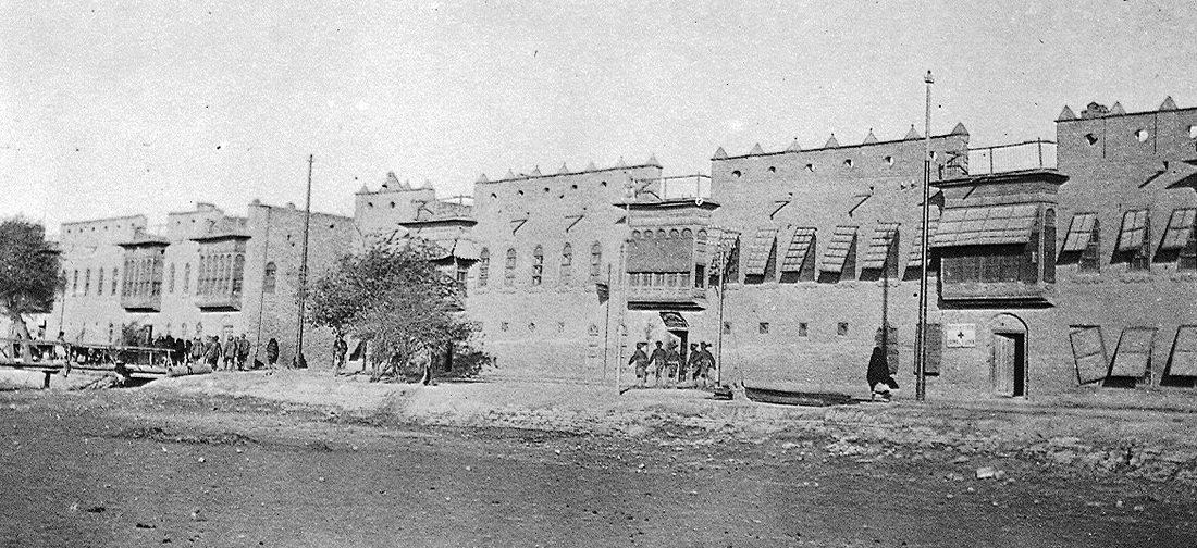 Al-Amara City in Iraq 1916